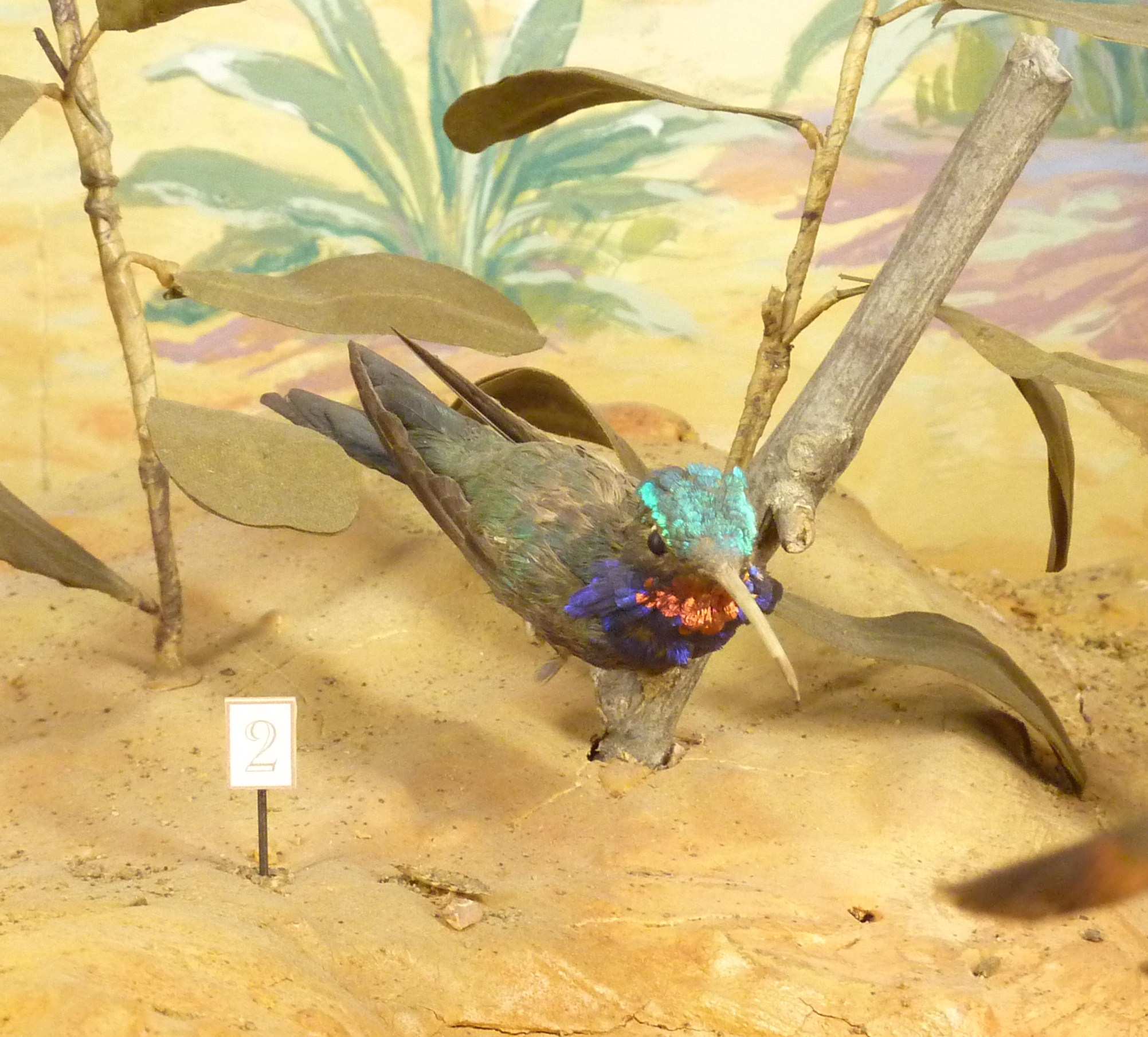 Blue-tufted Starthroat (Heliomaster furcifer)